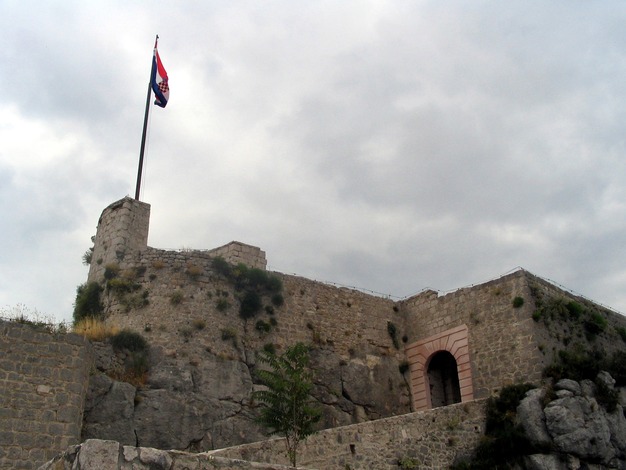 Oprah tower and the second entrance of the Klis fortress.